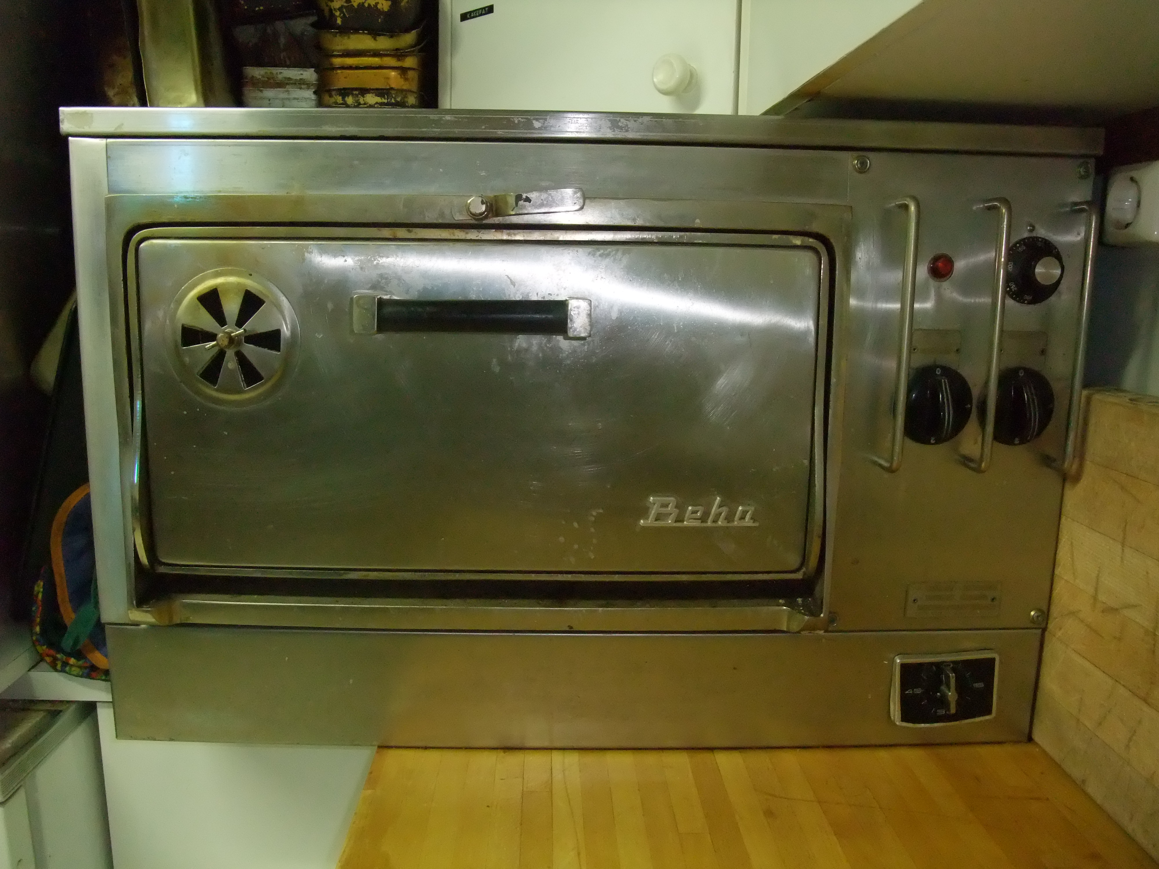 Heha-Hedo stove for industrial use